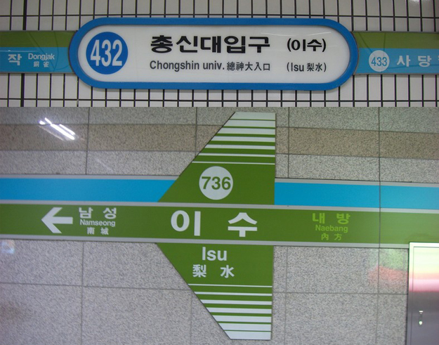 Isu Station